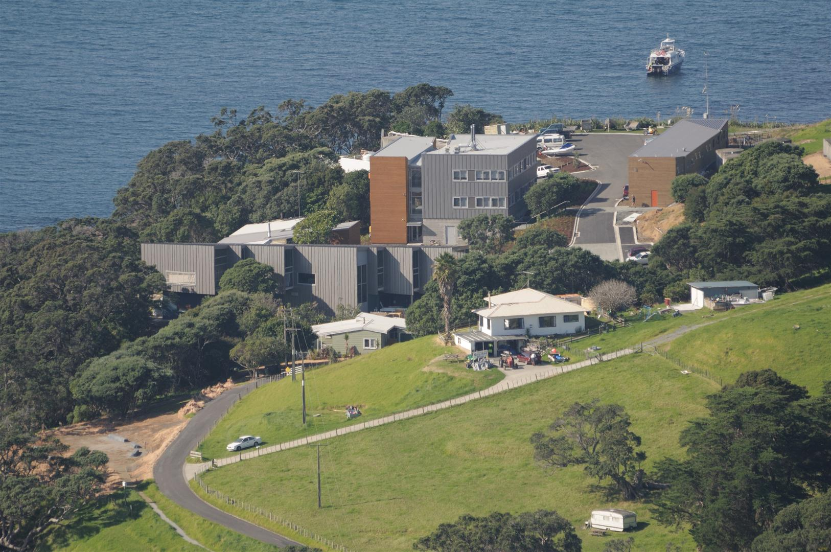 New development of Leigh